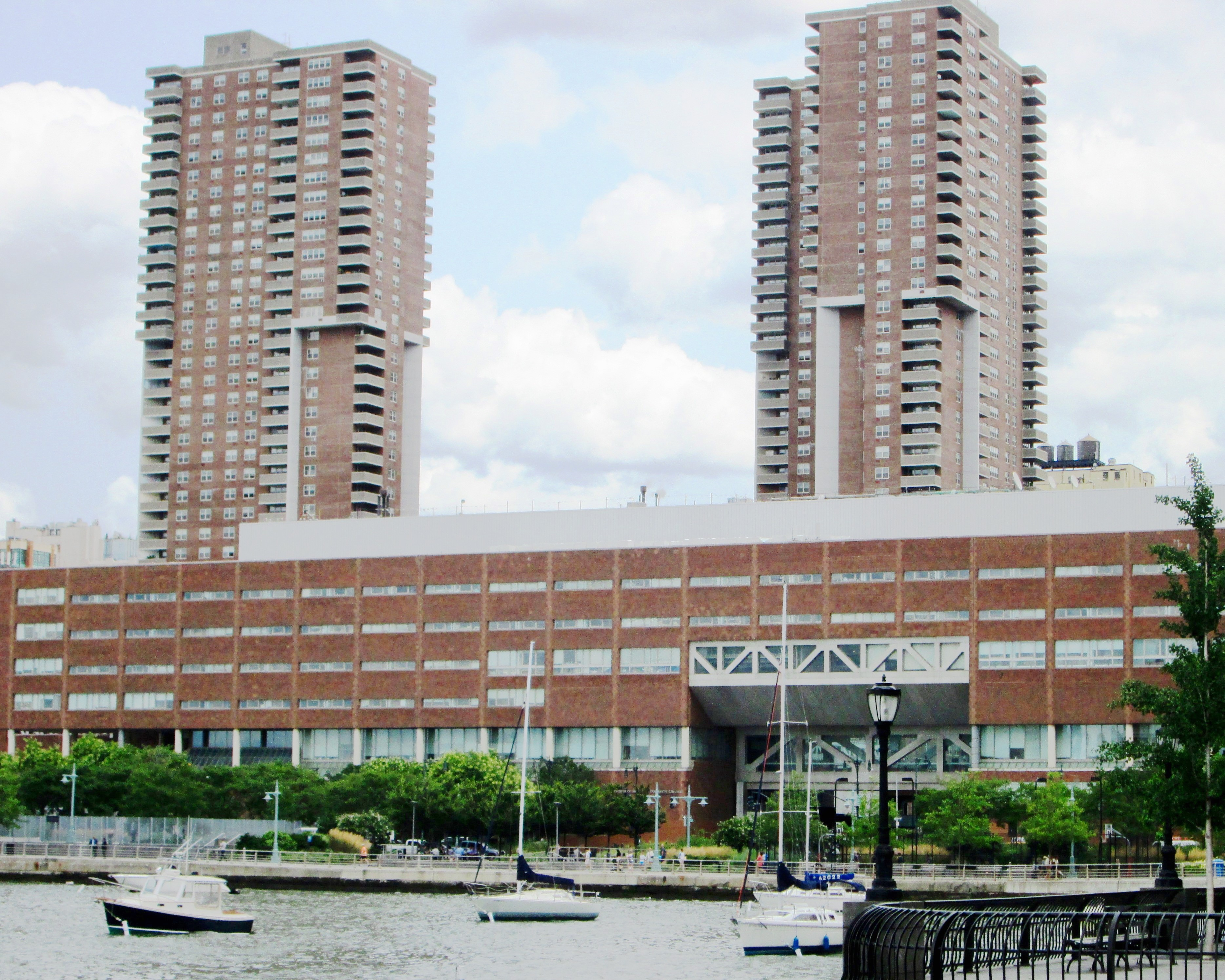 The Borough of Manhattan Community College (CUNY) building on West Street between Chambers and North Moore Streets was completed in 1980, after construction was halted in 1976. It was designed by CRS (Caudill Rowlett Scott Partnership. Behind it are Independence Plaza North (left) and Independence Plaza South (right) at 310 Greenwich Street between Duane and North Moore Streets, which were built in 1975 and designed by Oppenheimer, Brady & Vogelstein. They are seen here from the North Esplanade of Battery Park City. {Source: AIA Guide to NYC (5th ed.))